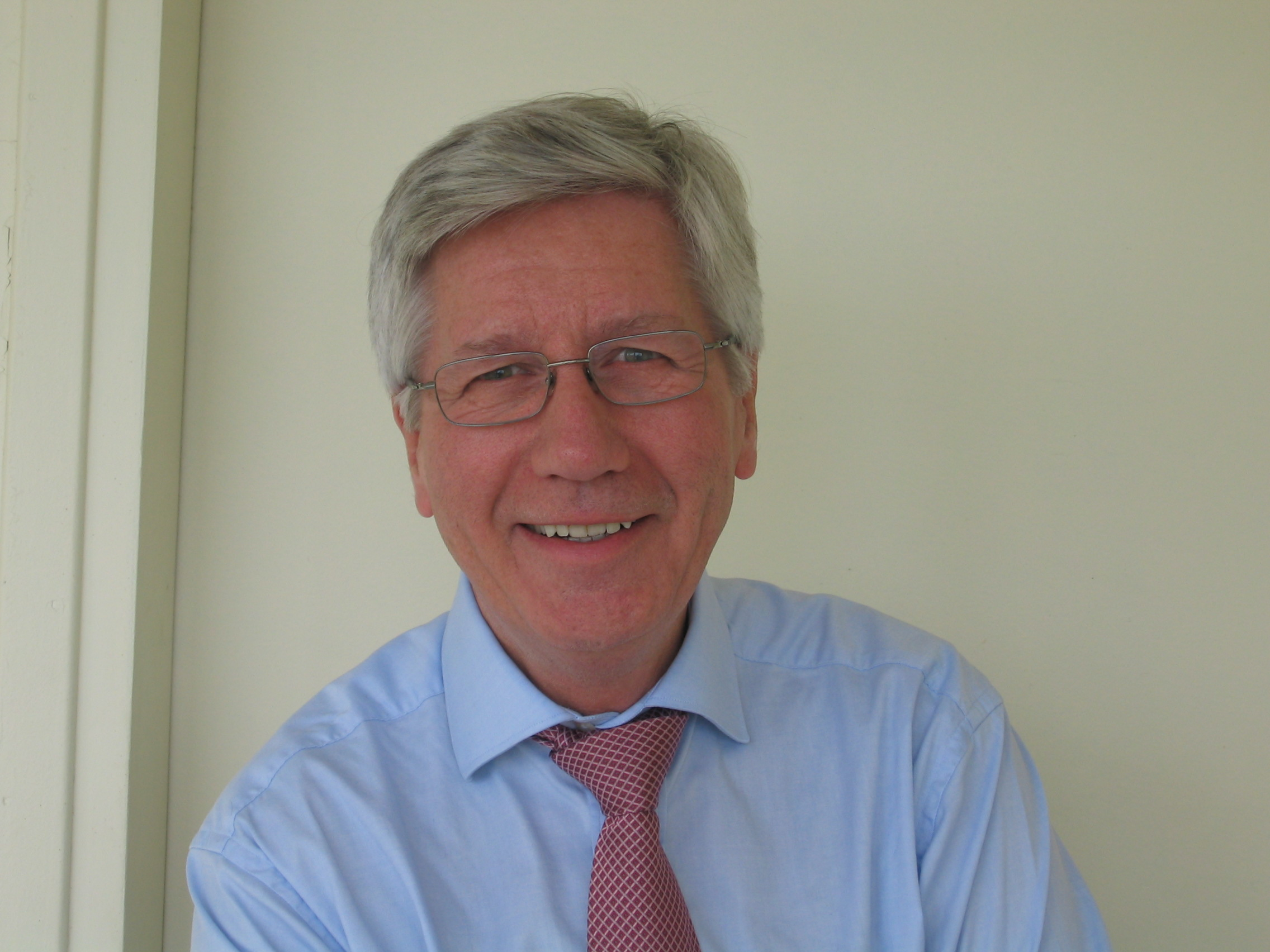 Francis Balle, french sociologist